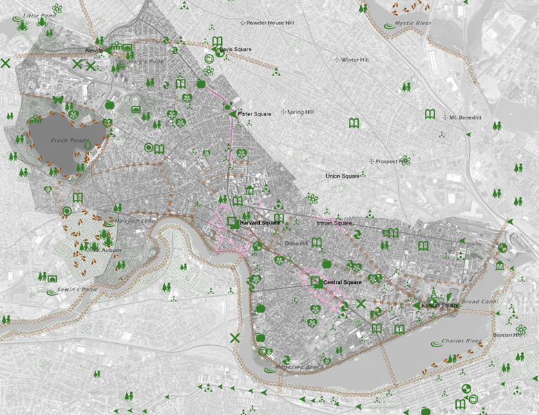 Green Map of Cambridge, Massachusetts USA Legend The map legend is available separately at File:Cambridge, MA Green Map Legend.png Attribution belg4mit is the author of this Copyleft image. It is also available on the project website and mirror.